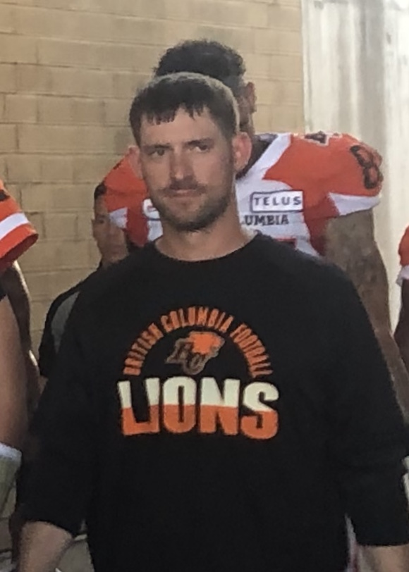 Drew Tate, coach for the BC Lions.